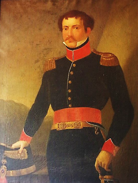 Portrait of João Carlos Ulrico de Oyenhausen e Almeida, Count of Oyenhausen (1822), by Arcângelo Fuschini